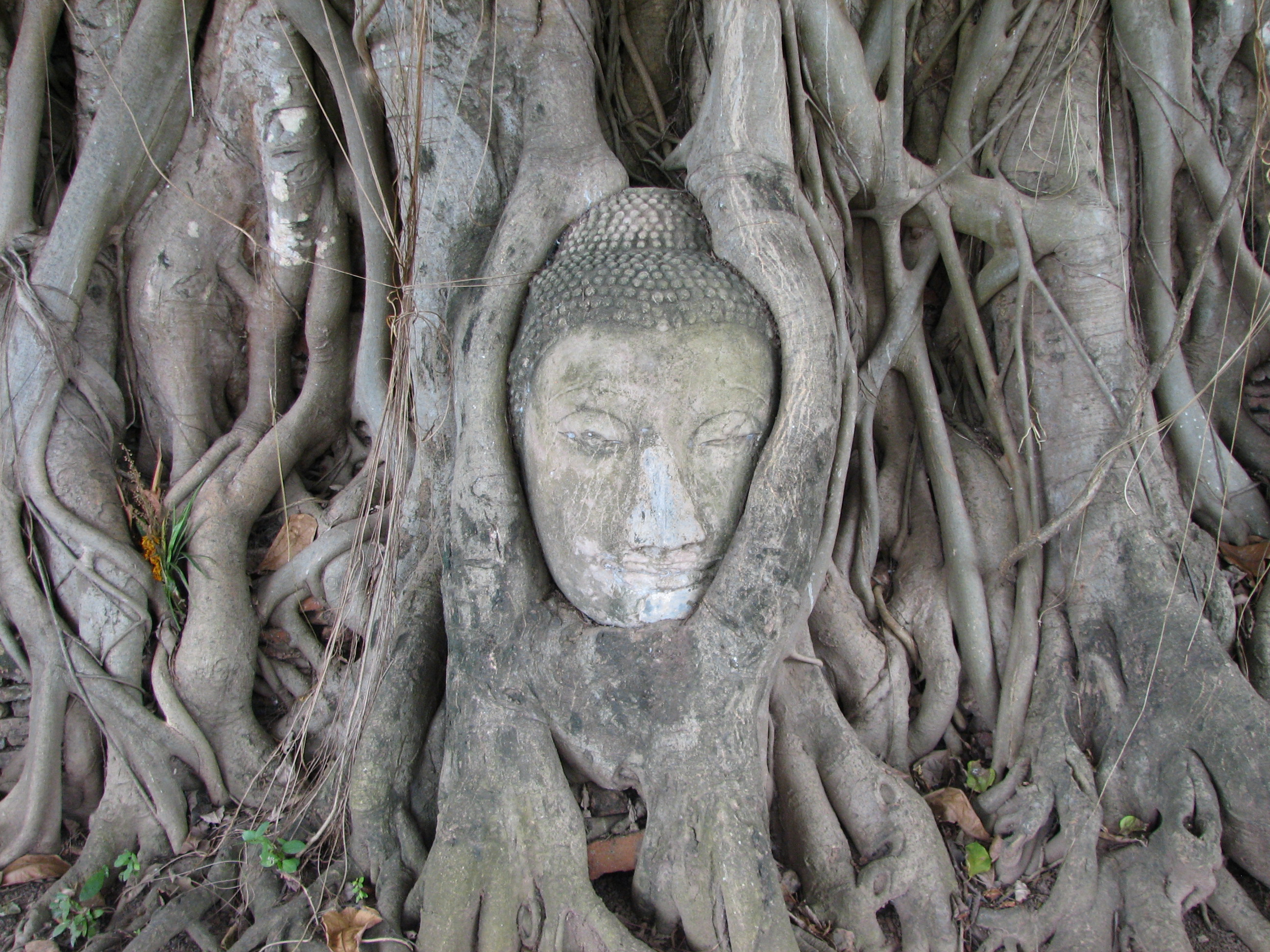 Buddha head overgrown by a fig in Wat Mahatat in Ayutthaya historic park, Thailand.